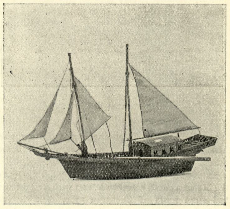 A model of lancha (or lanchang), a Malay two-master, with dipping lug sails.